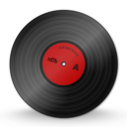 Vinyl Long Play (LP)